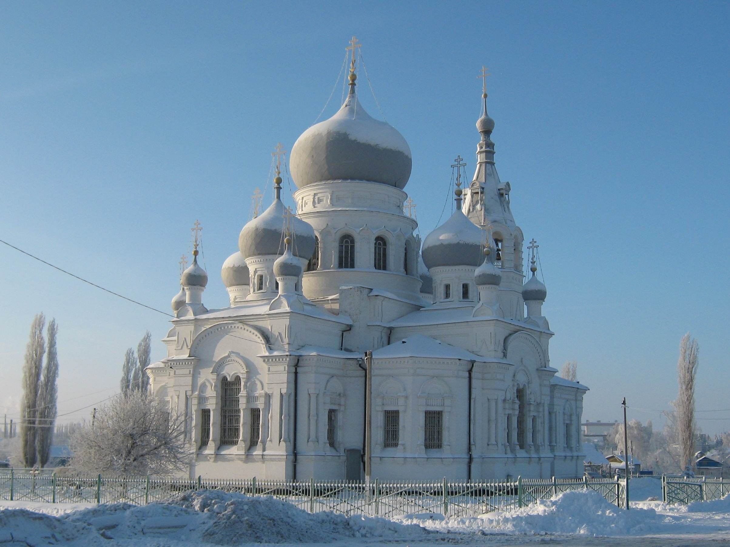 Anna church